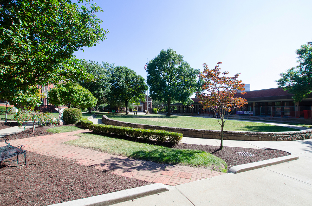 Carlow University Student Courtyard on a sunny day